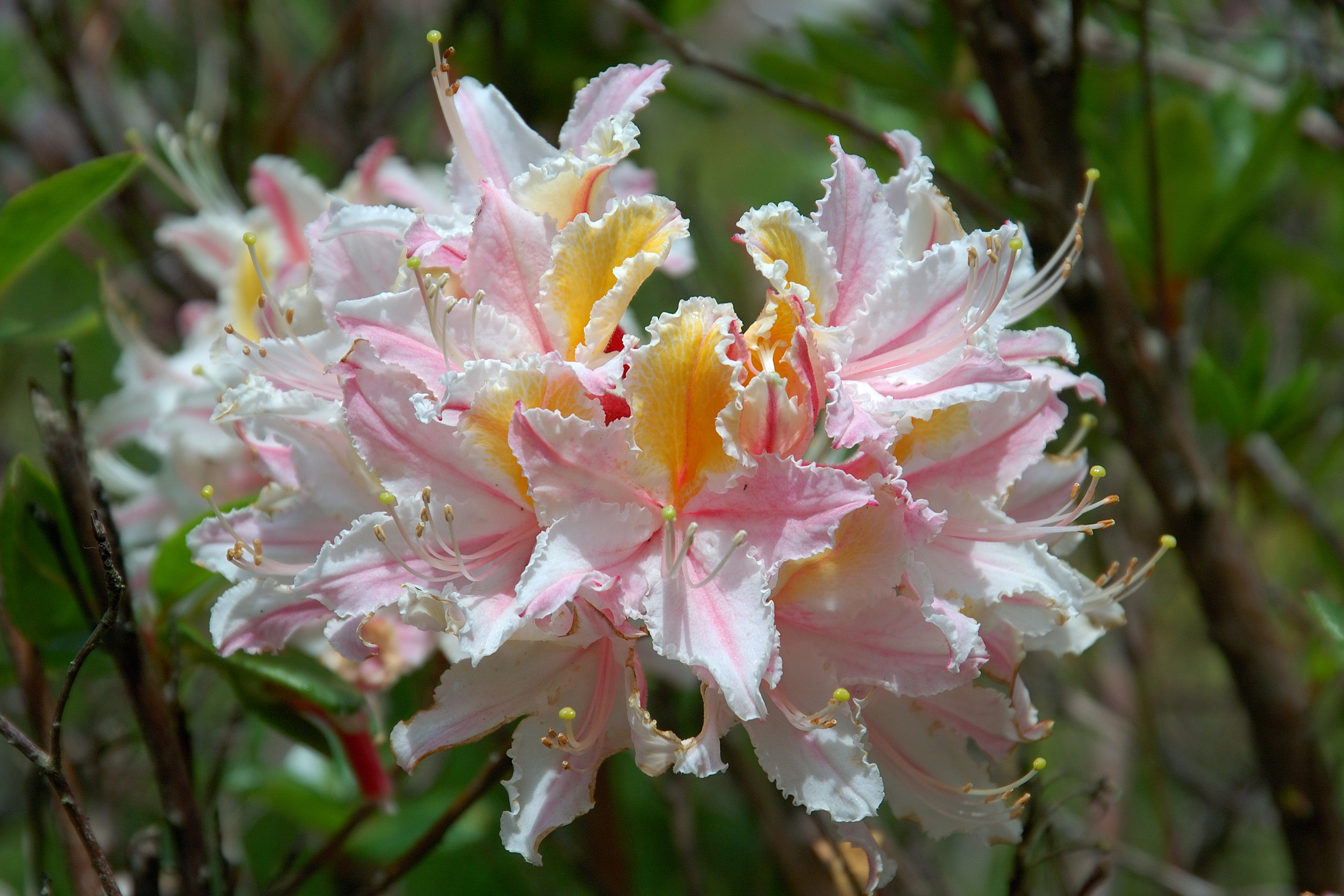 Rhododendron occidentale, photographed at the San Francisco Botanical Garden at Strybing Arboretum